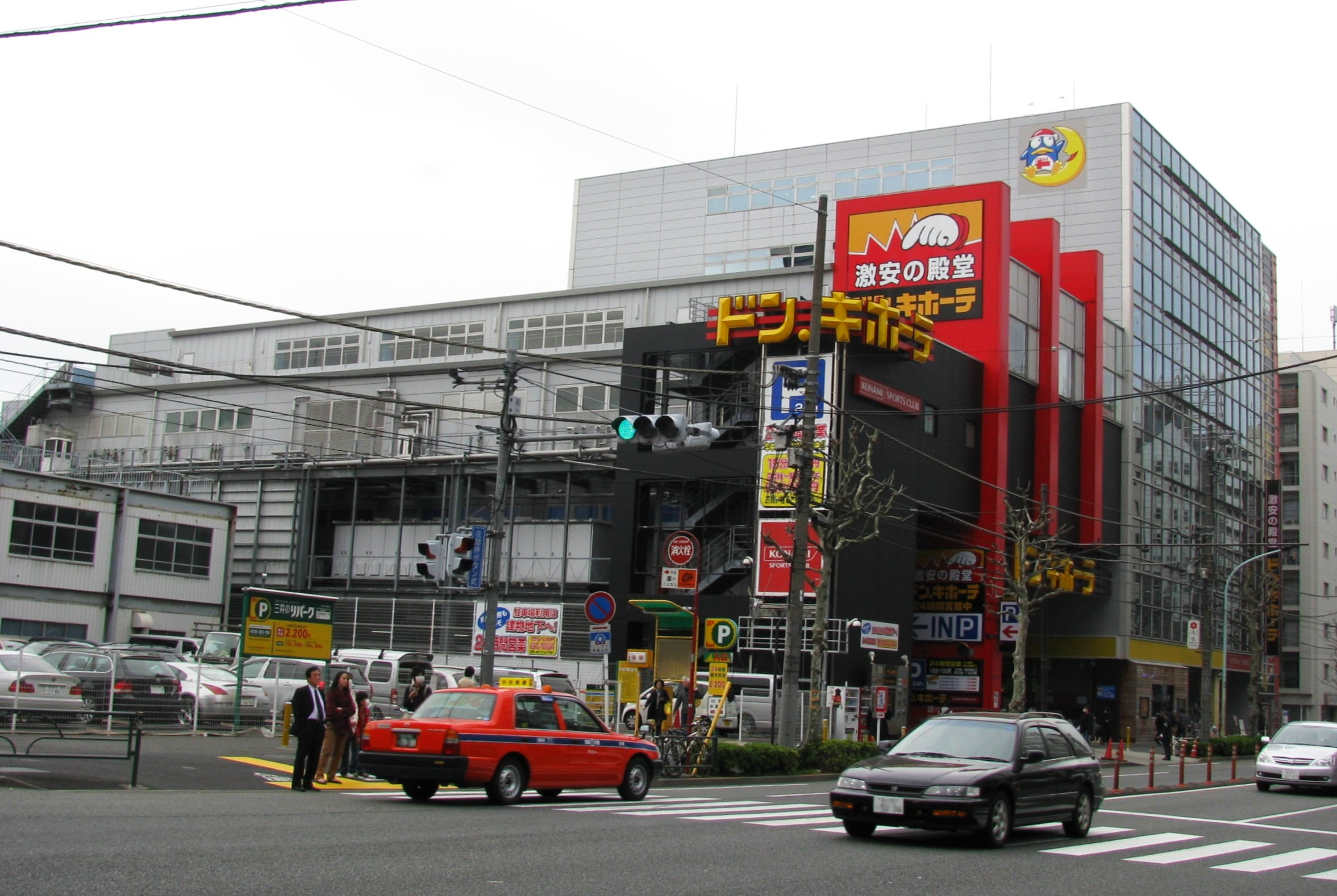 Headquarters and Nakameguro main store of the Don Quijote. This place is Aobadai, Megro, Tokyo, Japan.